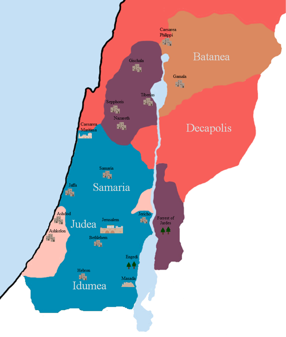 Map of the Herodian Tetrarchy as established by Augustus in 4 BCE until 6 CE